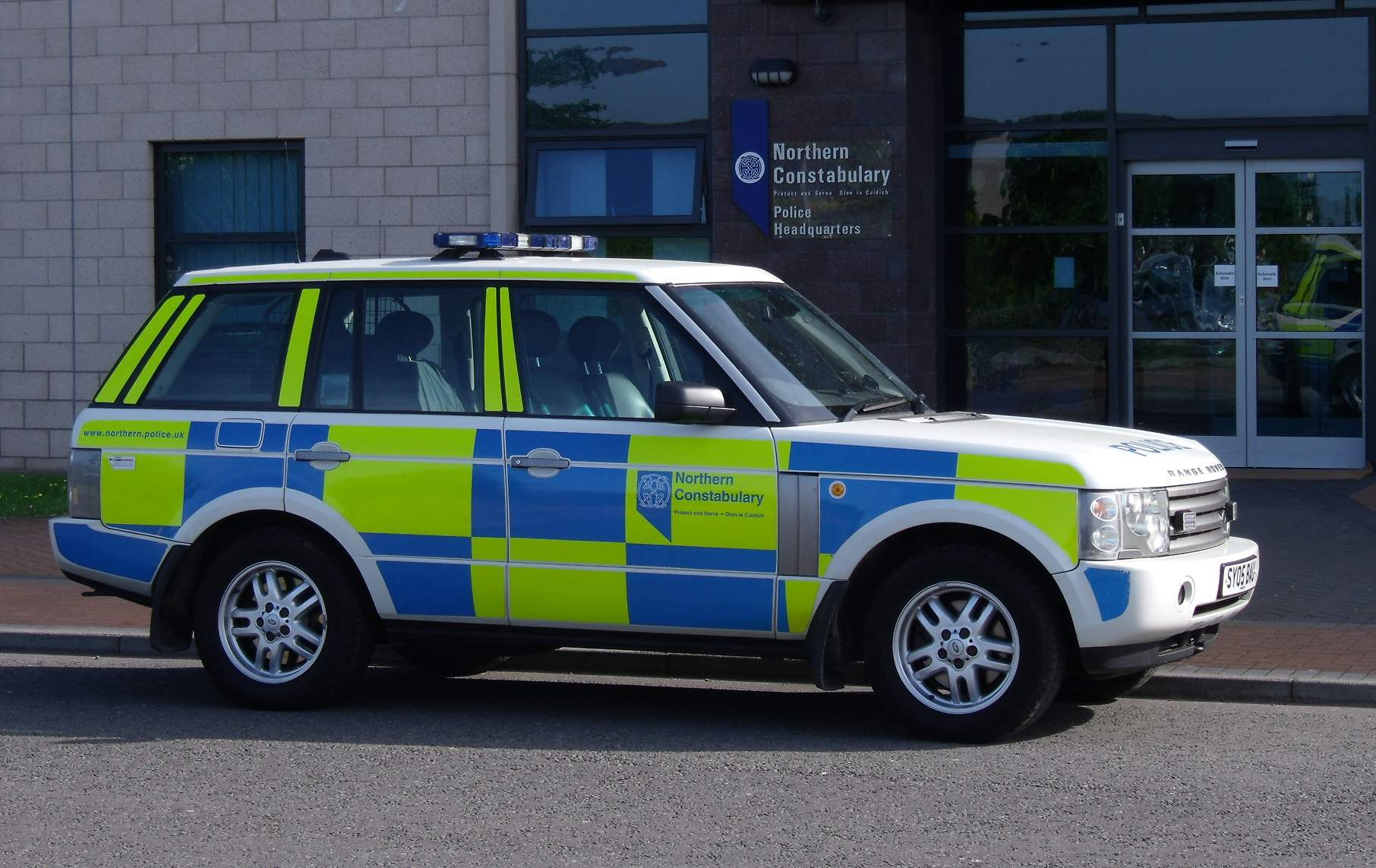 Range Rover outside Northen Constabulary Force Headquarters, Inverness, back in May 2009 during a heatwave.